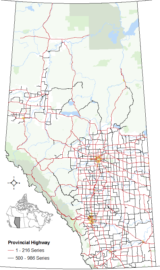 The alignments of both series of highways within Alberta's provincial highway system within other base features including hydrography, national/provincial parks, cities and city equivalents, and the provincial green and white zones.